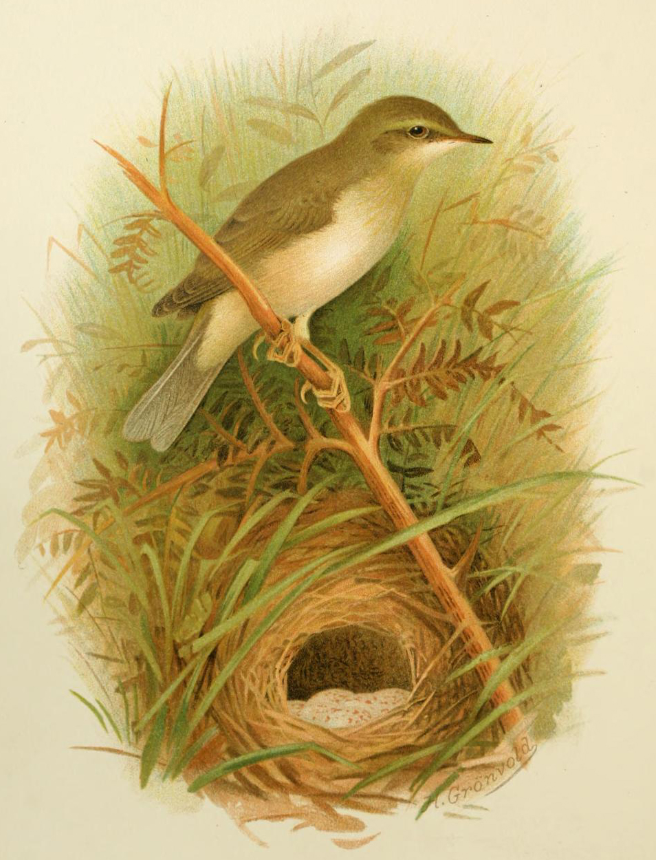 An illustration of a Willow Warbler at its nest by Henrik Grönvold